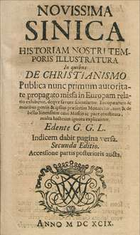 Titlepage Novissima Sinica by Gottfried Wilhelm Leibniz